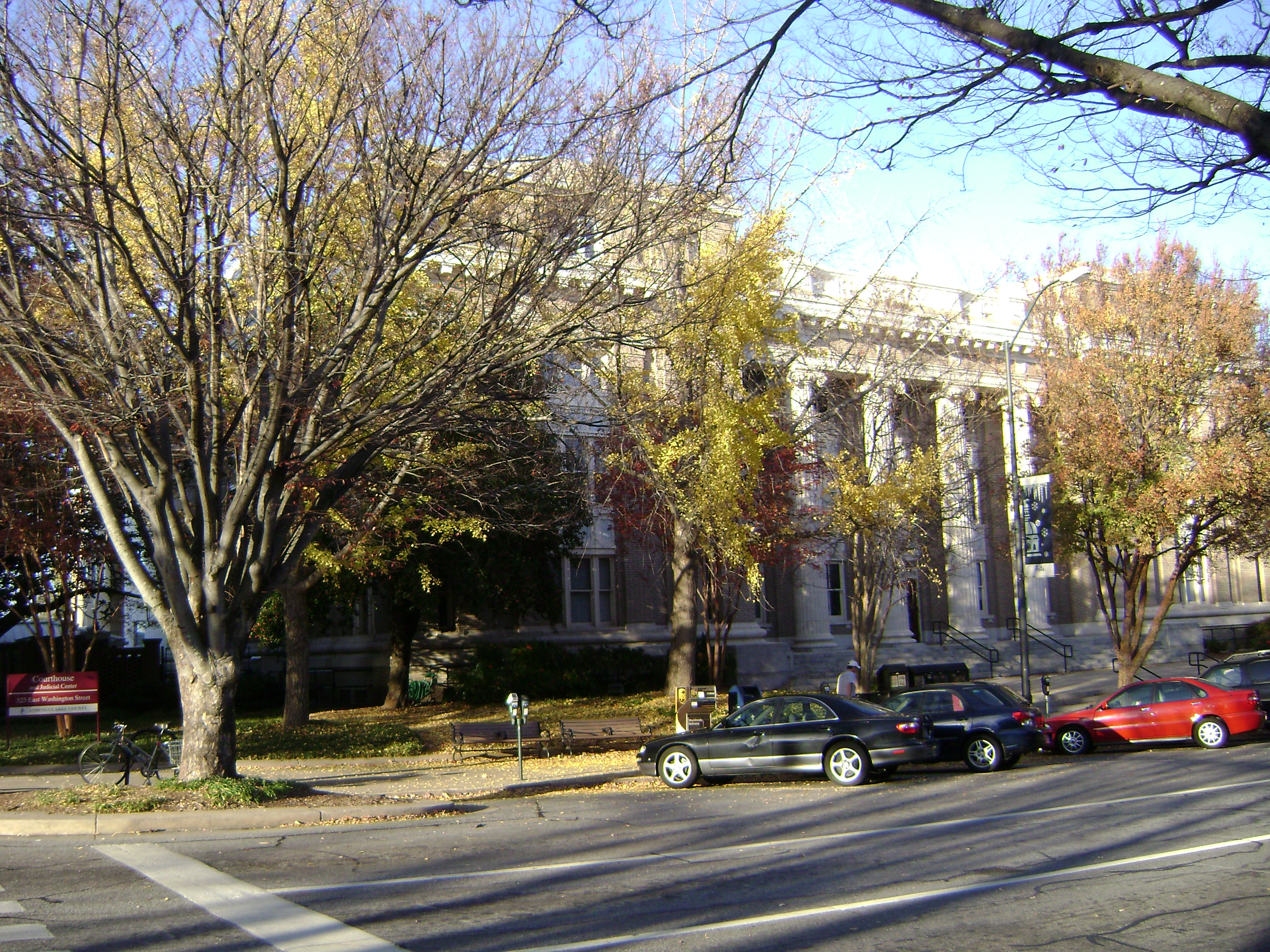 County Courthouse and Judicial Center at 325 E. Washington St. in Athens, Georgia